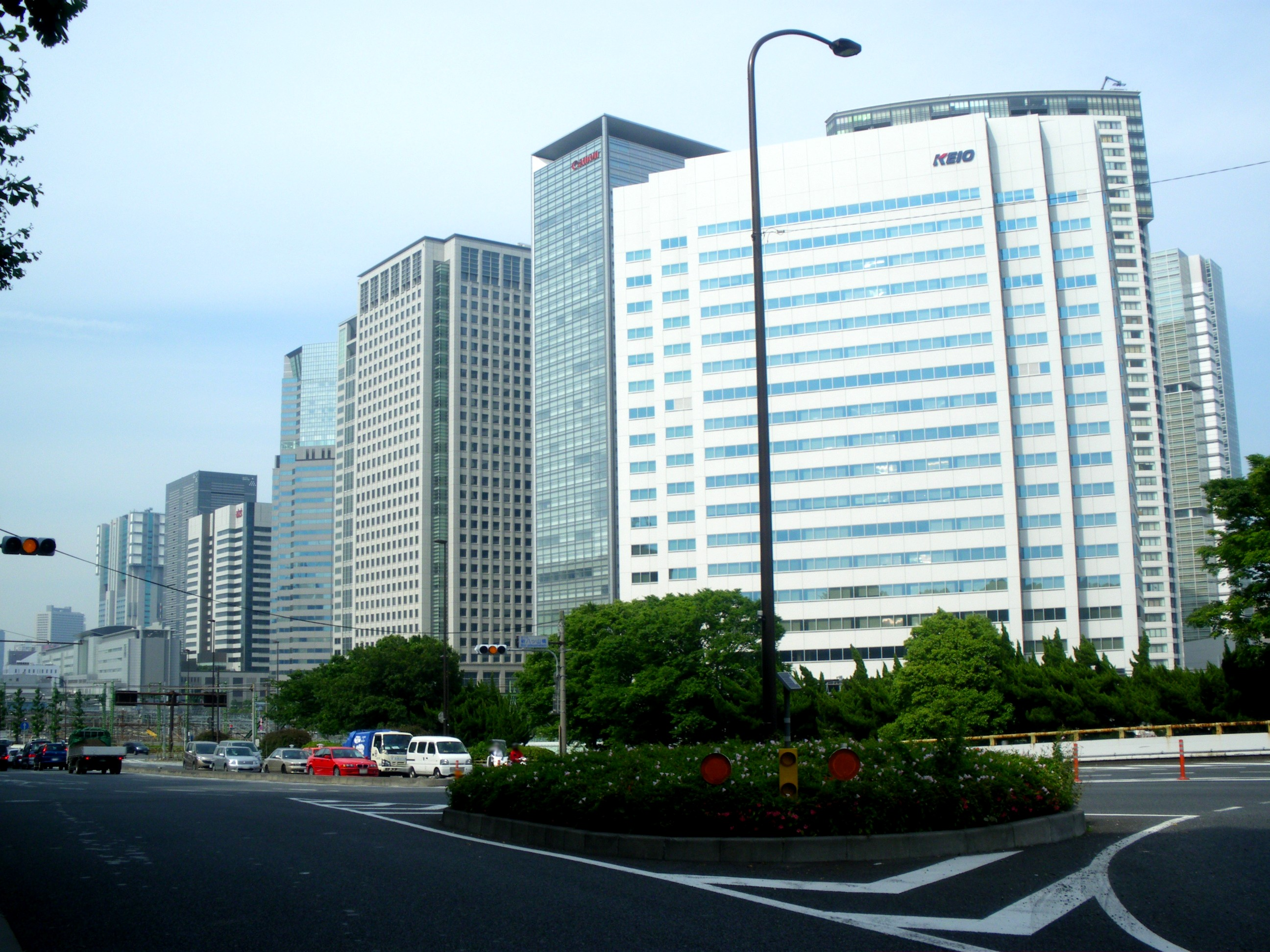 A photo of Shinagawa Grandcommons(high-rises in front of Shinagawa station.), seen from Shinyatsuyamabashi intersection,Tokyo,Japan.